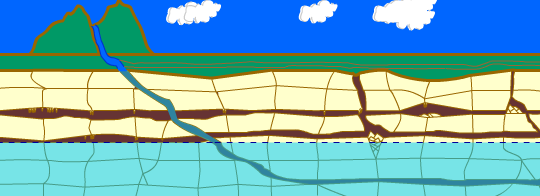 Image showing an advanced stage of speleogenesis in Karst topography. The water has created several cavities in the rock and the phreatic level is lower than in the inicial stages. Some of the galleries has fallen and originated collapse halls. Dry galleries and halls have speleothems.